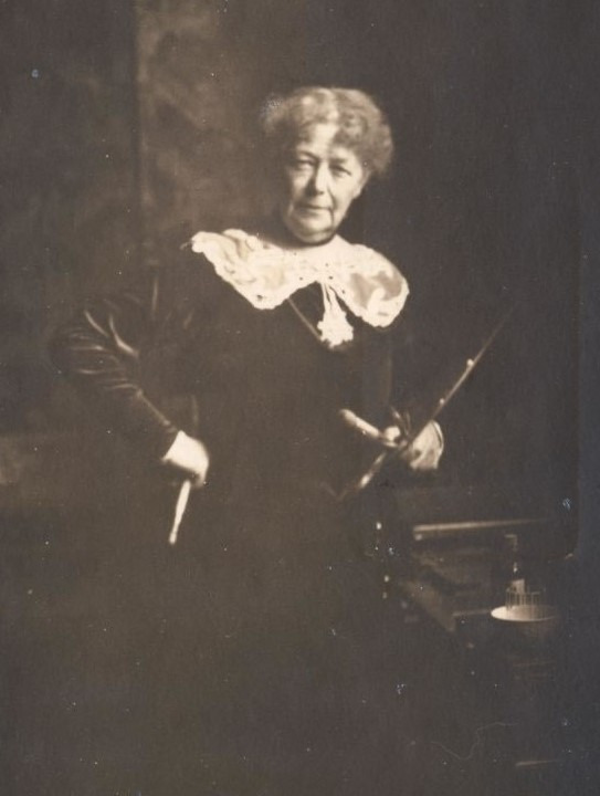 Sophie Koner: possibly a self-portrait, 1925